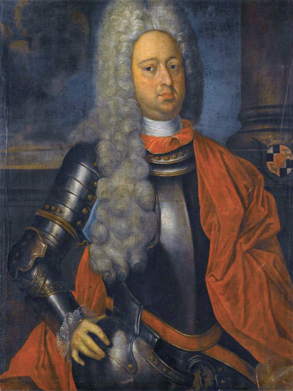 Friedrich Wilhelm, Fùrst von Hohenzollern-Hechingen (1663-1735). Charged with the sitter's coat of arms